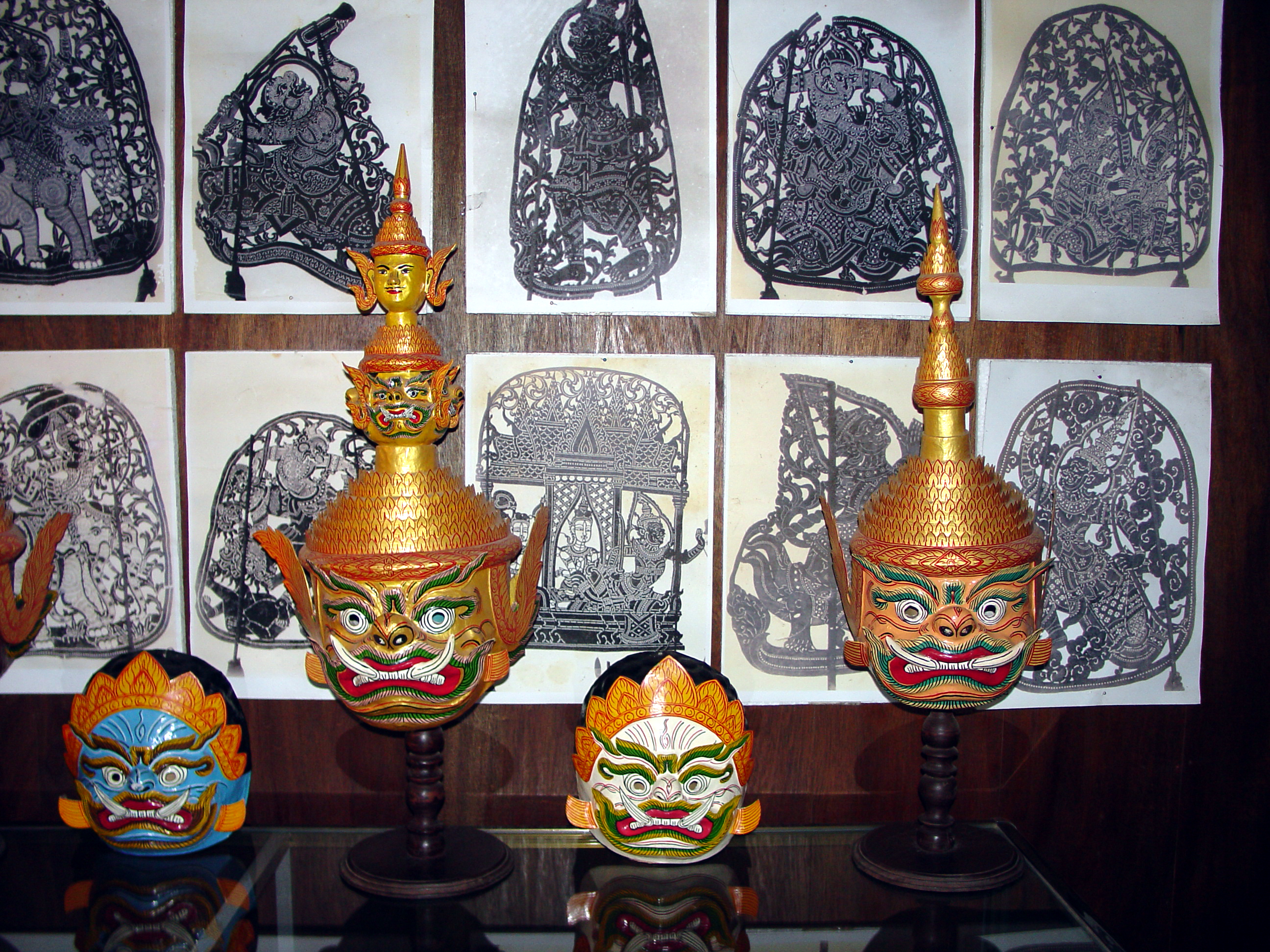 A replica traditional house inside the Royal Palace complex holds examples of several arts and crafts of Cambodia, including these Ramayana masks and shadow puppets. The multi-headed mask in the center represents Ravana, the villain of the piece.